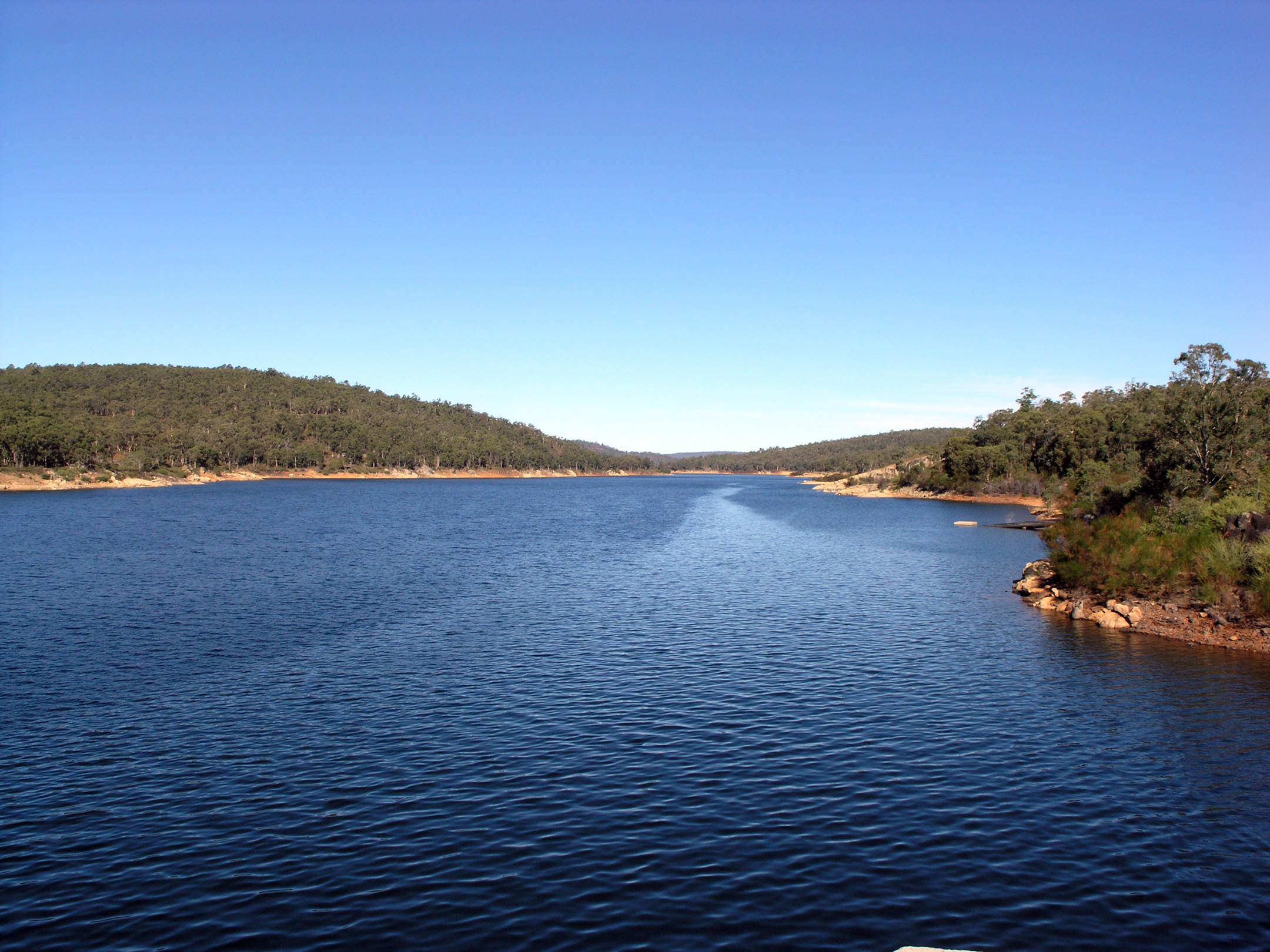 Lake O'Connor looking east, from Mundaring Weir in the Darling Range, Perth, Western Australia. Taken by me SeanMack.